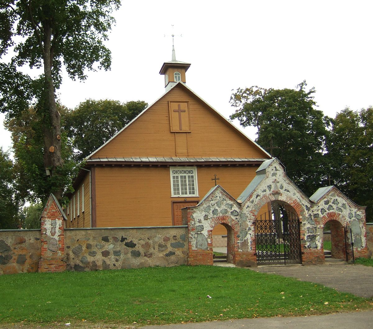 Church in Bagaslaviškis